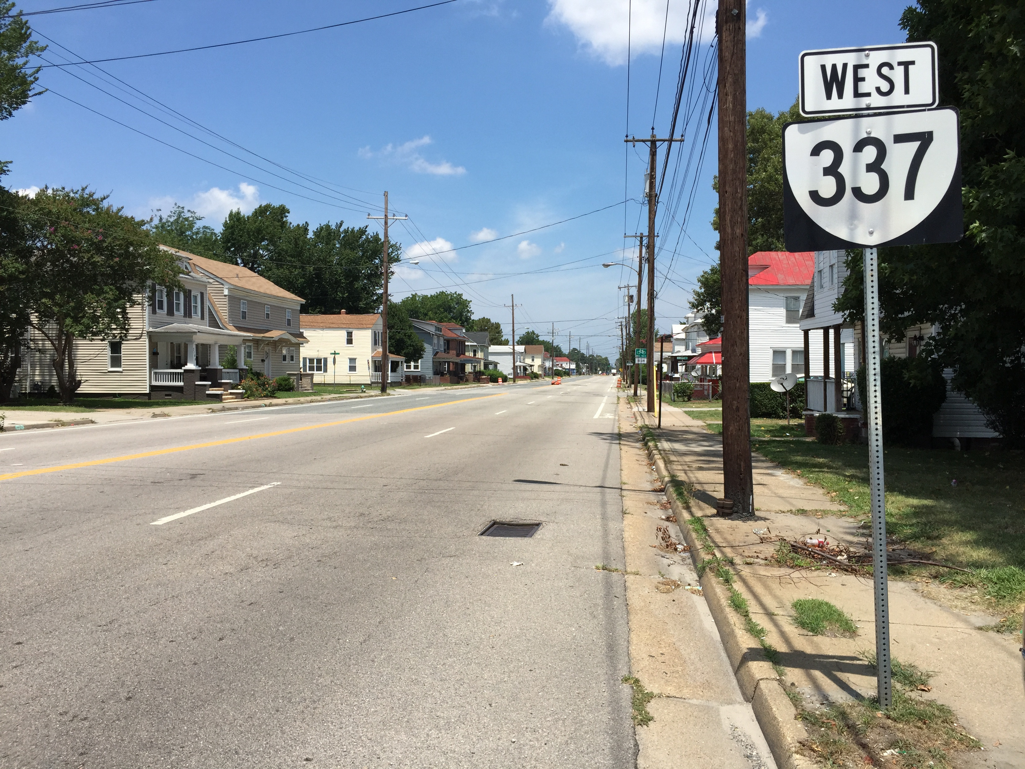 View west along Virginia State Route 337 (Elm Avenue) at Lindsay Avenue in Portsmouth, Virginia